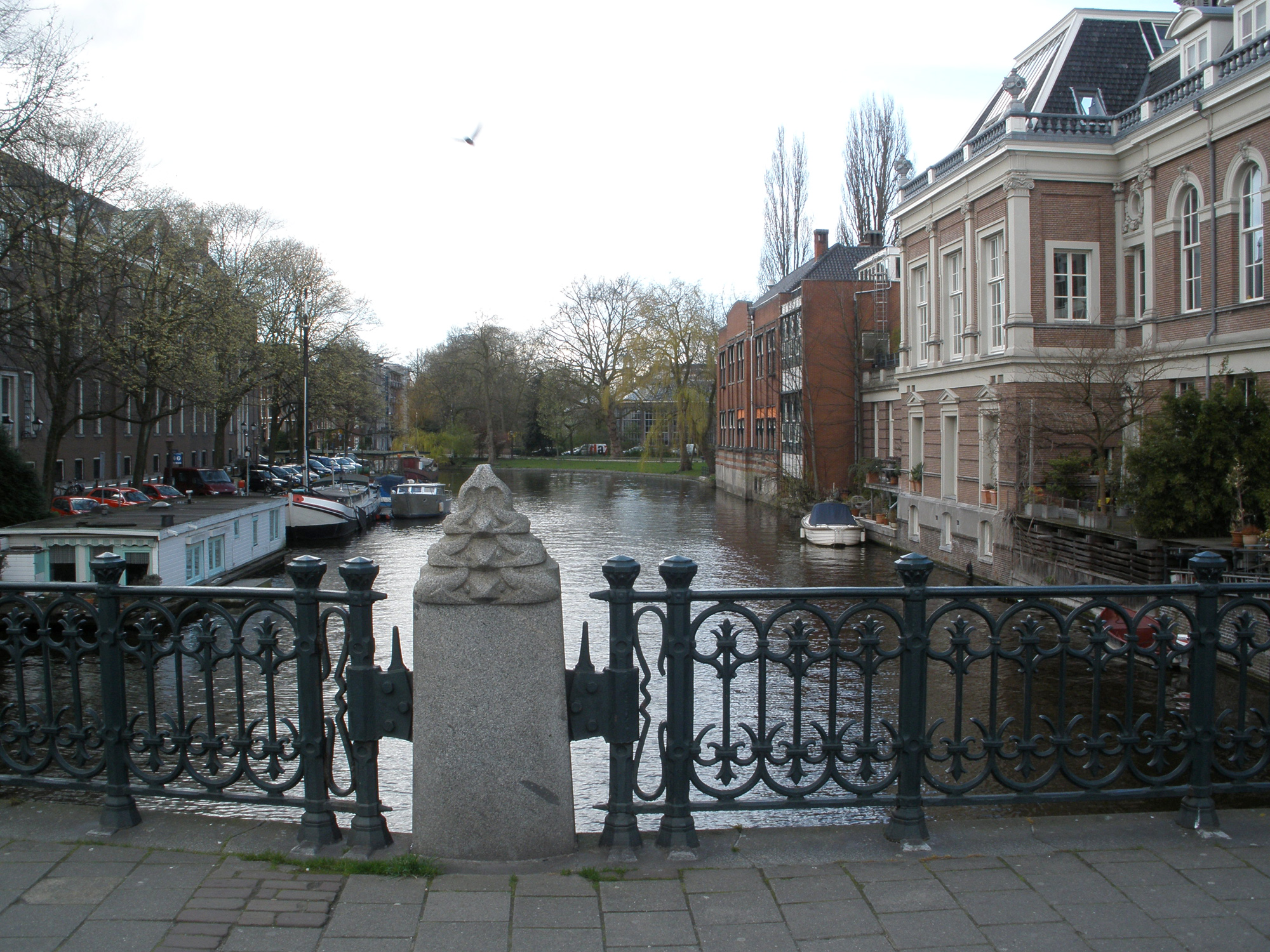 Plantage Muidergracht / Nieuwe Herengracht canal in Amsterdam, taken from the bridge between Roeterstraat / Plantage Kerklaan. The street on the left bank of the canal is called Nieuwe Keizersgracht, on the right side (behind the buildings) the street is called Plantage Muidergracht